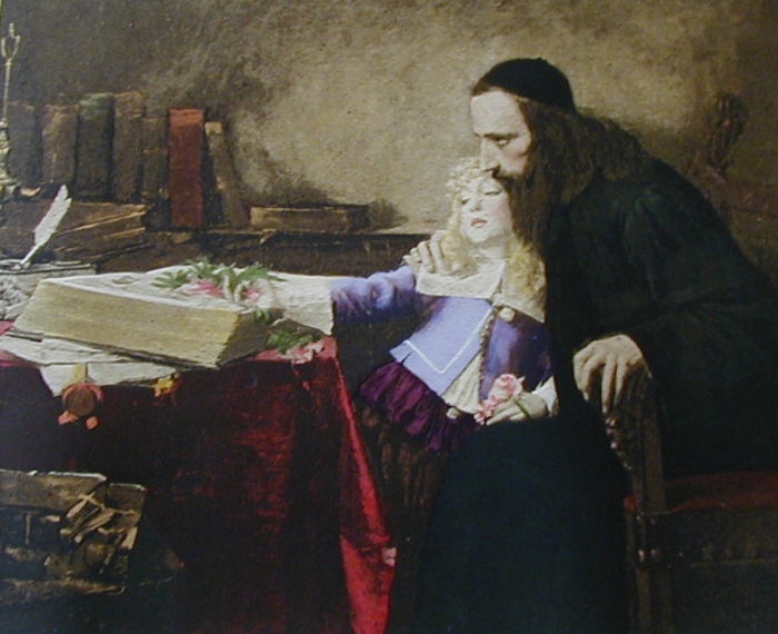 Uriel d'Acosta instructing the young Spinoza